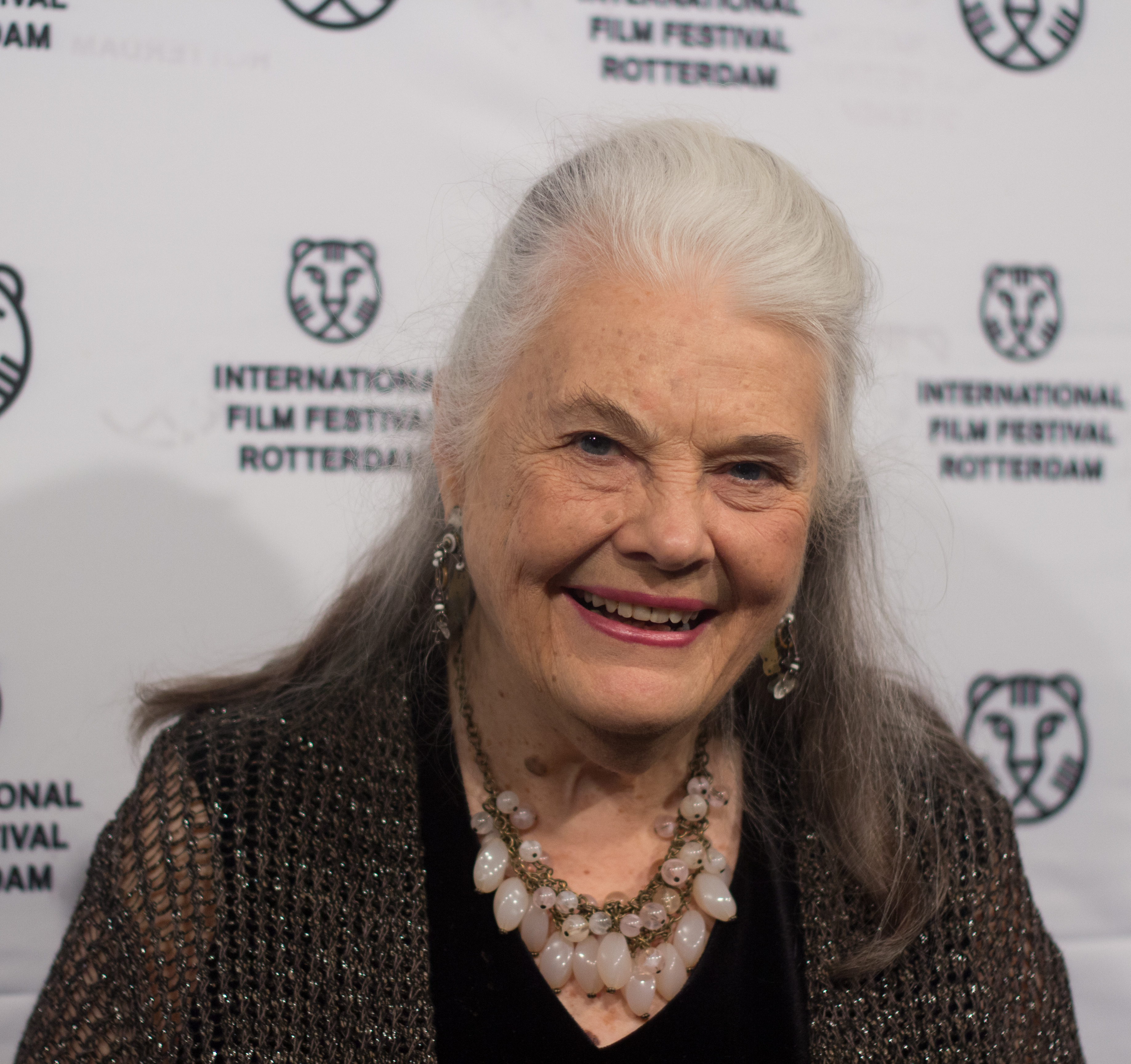 Lois Smith at the premier of "Marjorie Prime"